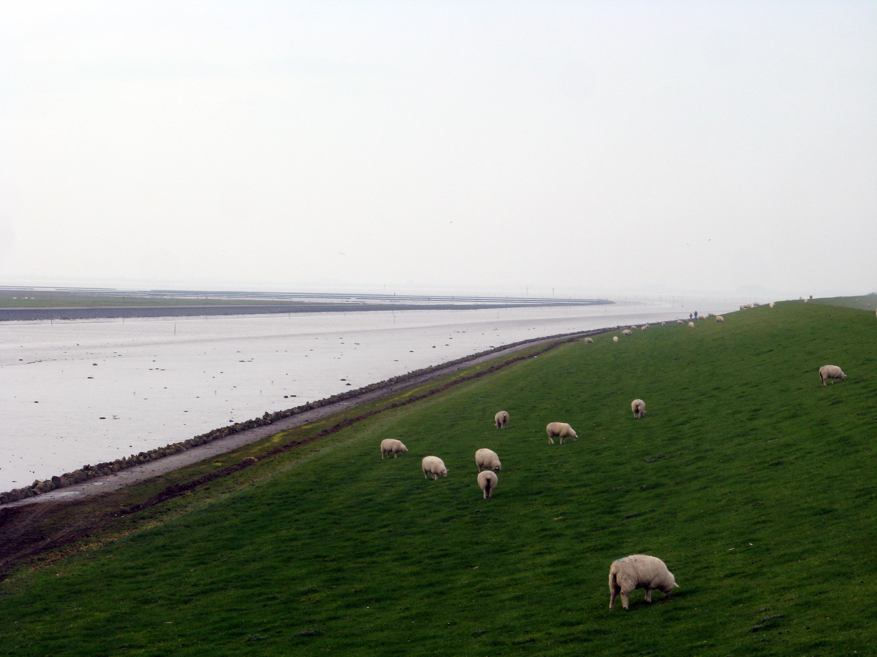 Last part of the Heverstrom, a tidal channel in North Frisia, Germany before it enters Husum harbour